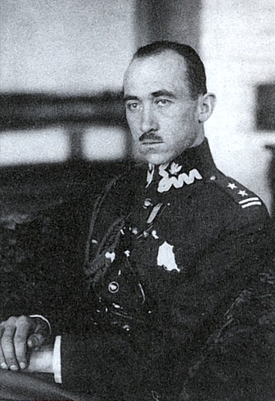 Colonel Tadeusz Schaetzel , Polish diplomat and officer of Polish Secret Services before WW II